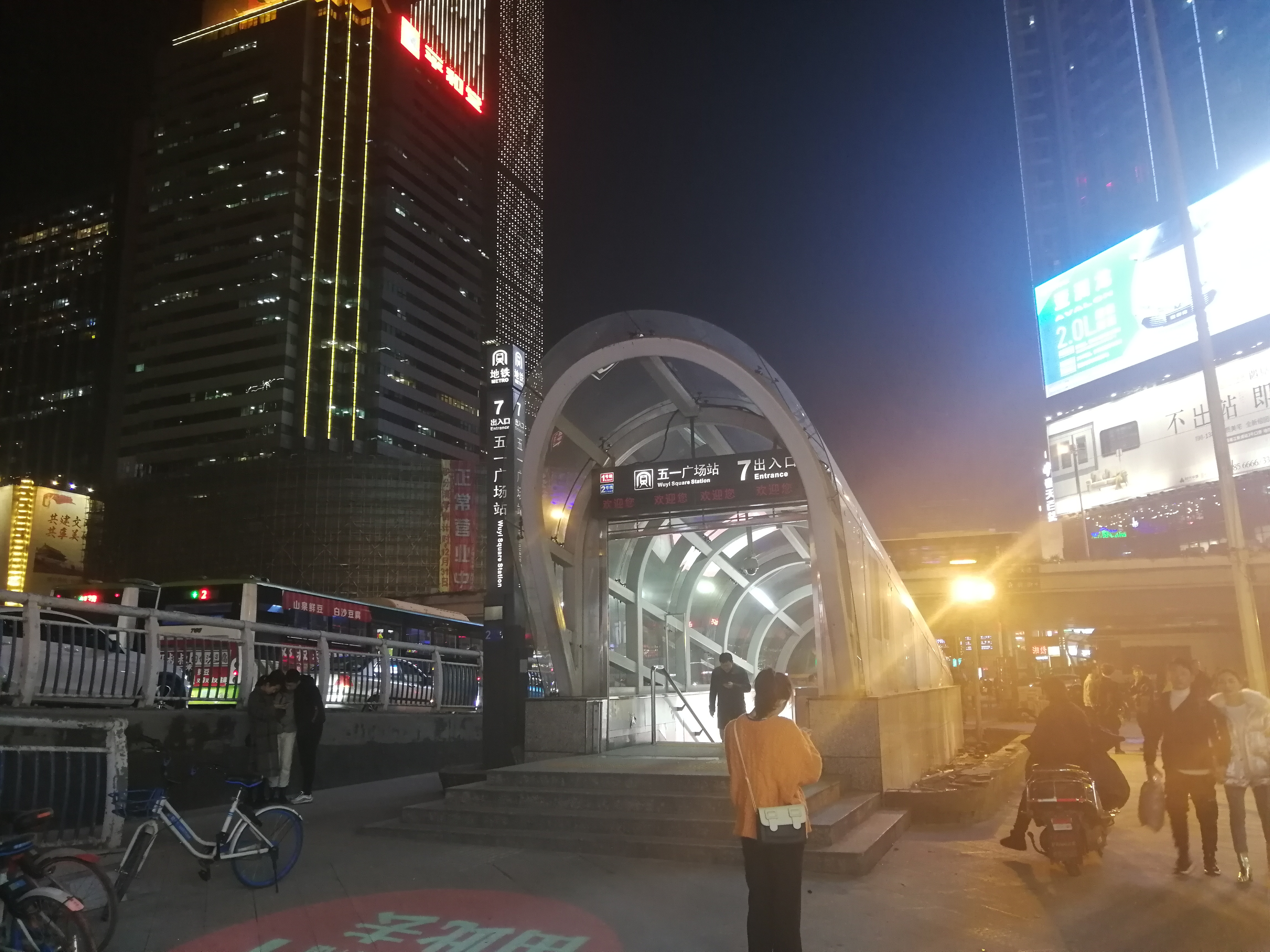 Wuyi Square Station (Line 2 & Line 1)